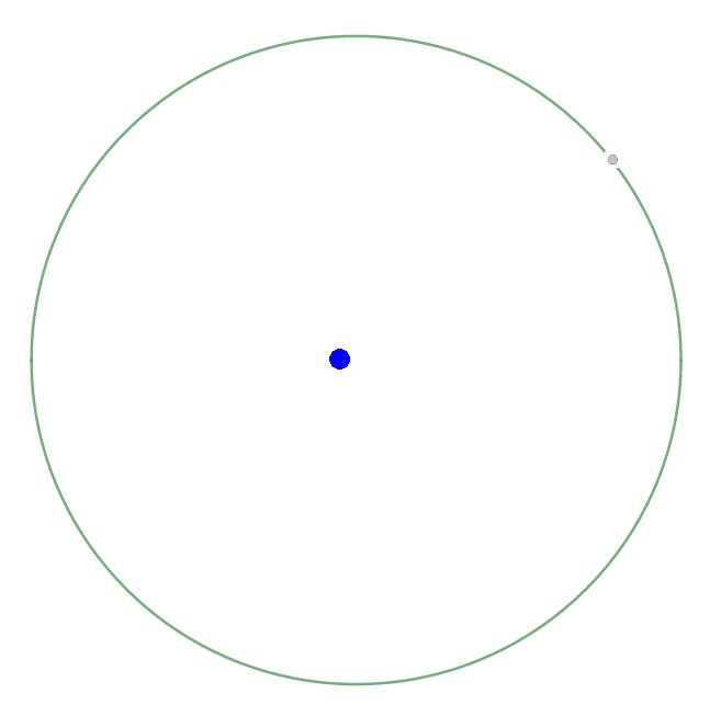 Moon's orbit and sizes of Earth and Moon to scale. Earth is at the ellipse's focus left of center. The perigee is on the left, the apogee on the right. The semi-major axis in the horizontal is 0.14% longer than the semi-minor axis in the vertical.